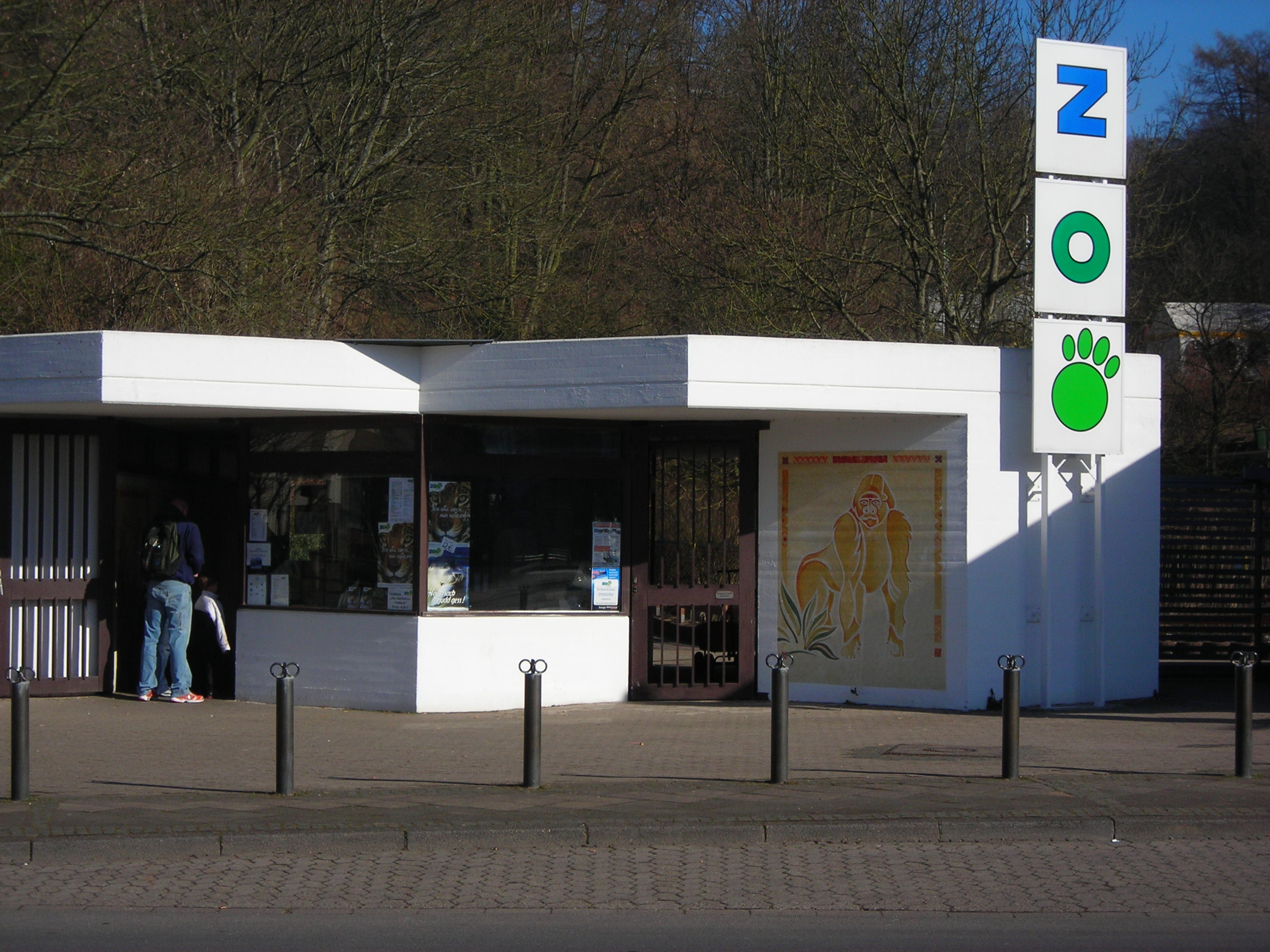 The entrance of Saarbrücker Zoo, Germany.